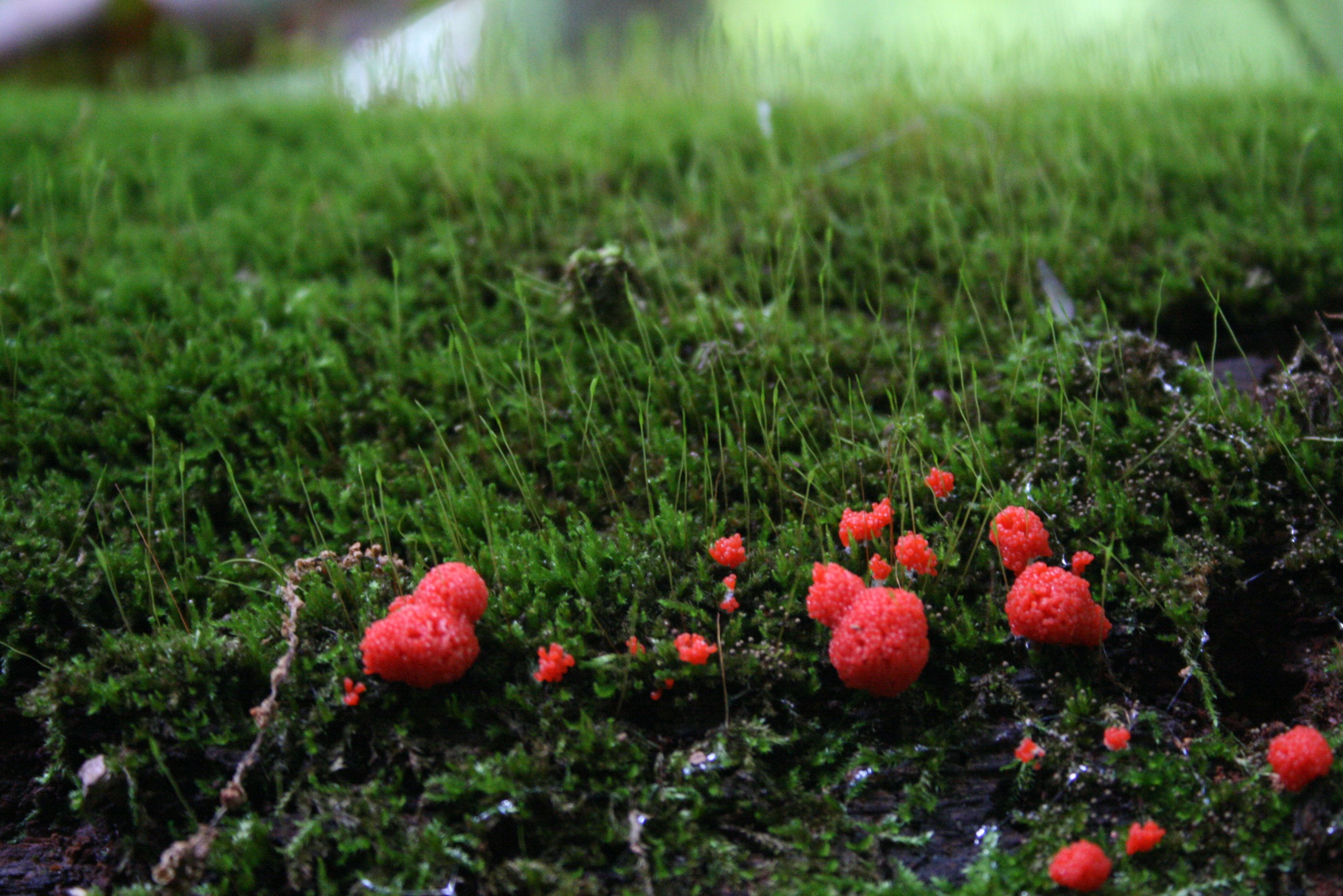 This may be tubifera ferruginosa. They look yummy.